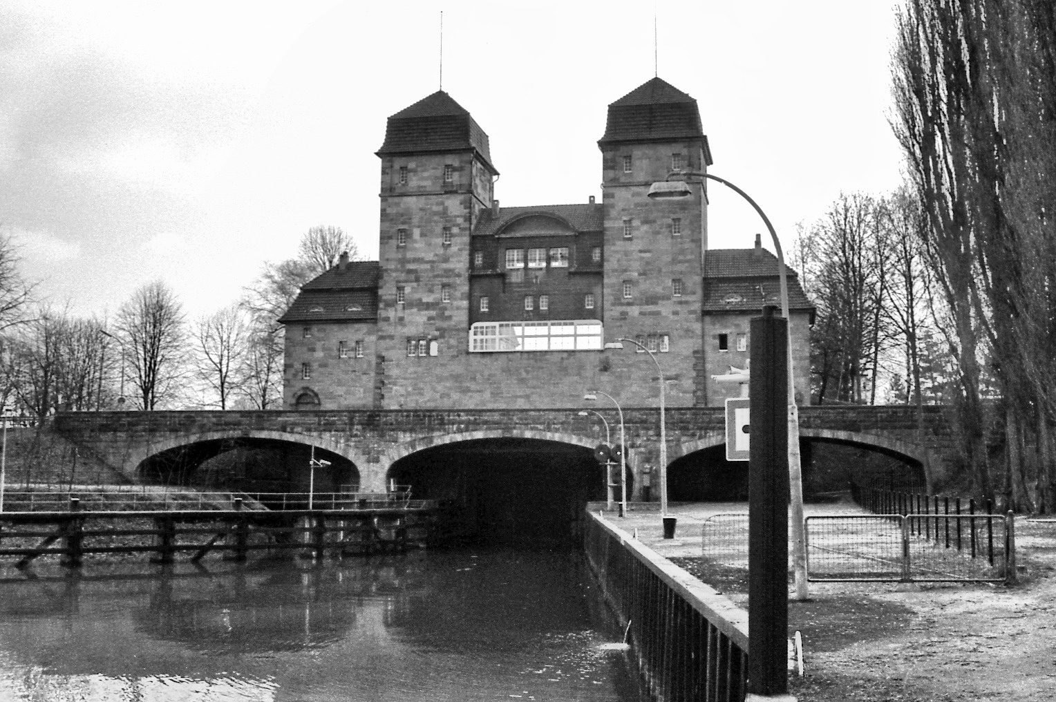 The lock gate at Minden, Germany which moves boats between the River Weser and the Mittelland-Kanal. Taken in 1977.